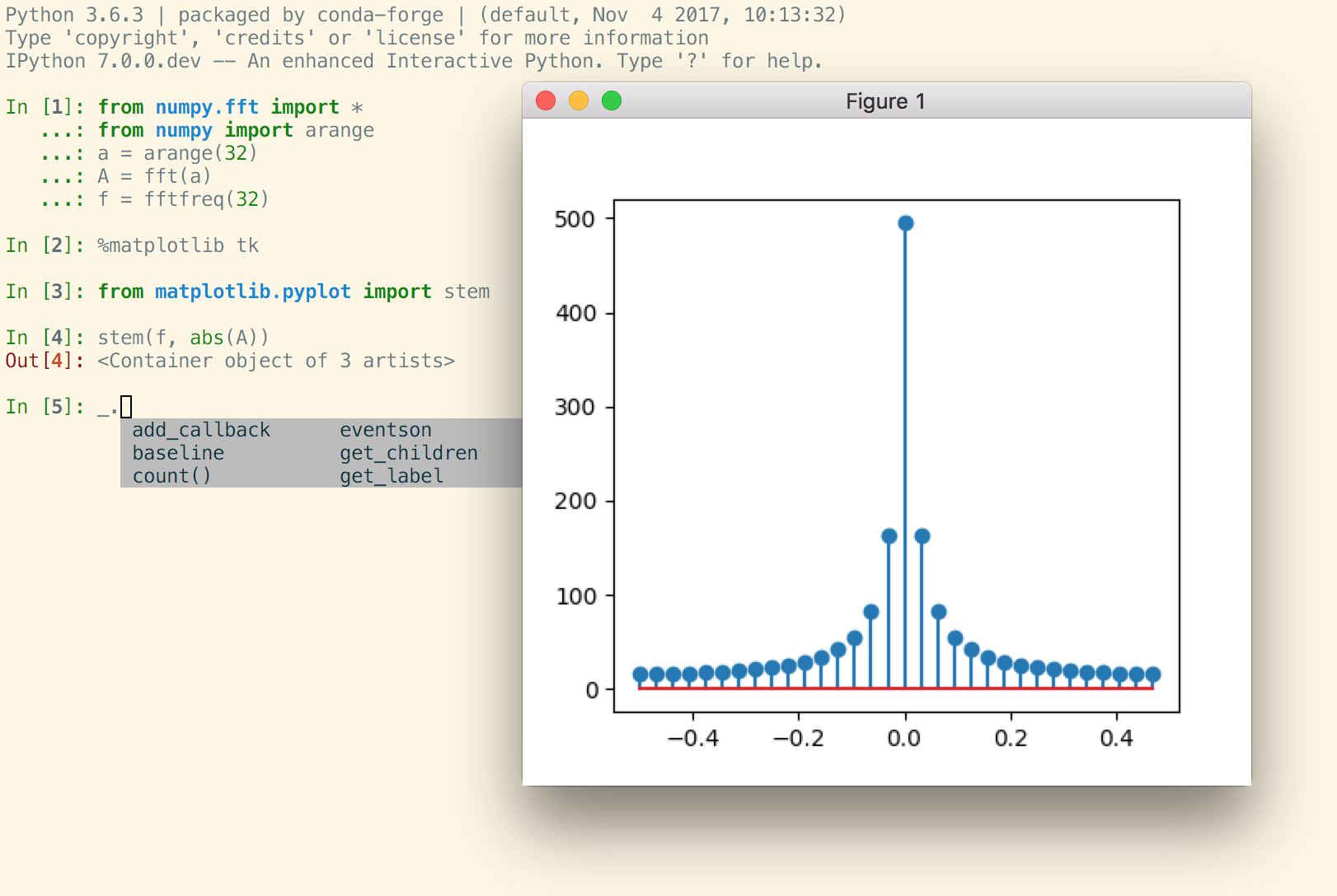 Screenshot of IPython terminal on OSX using iTerm 2. This file show the computation of a fast-Fourrier transform using numpy, displayed with a matplotlib TK window, and show multiline editing, color highlighiting and tab completions in IPython.